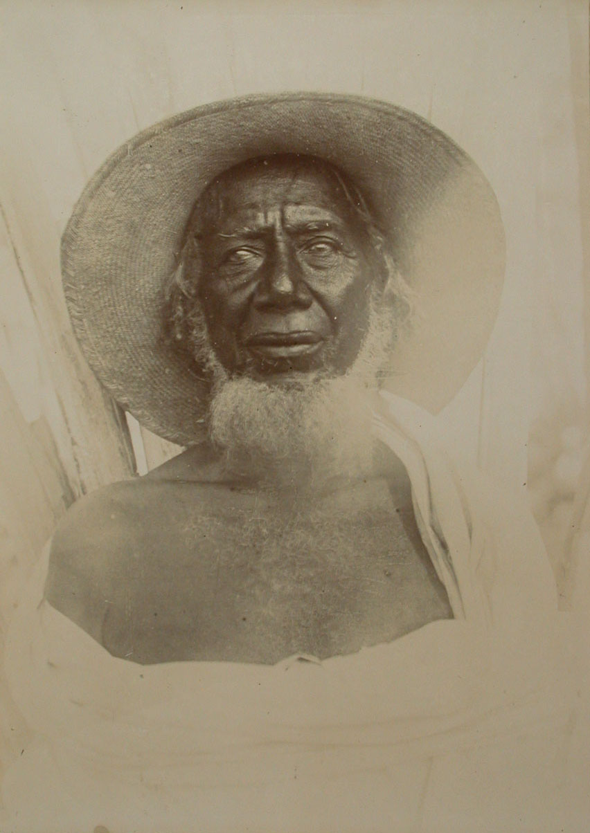 An older Bezanozano man, Madagascar. 1841